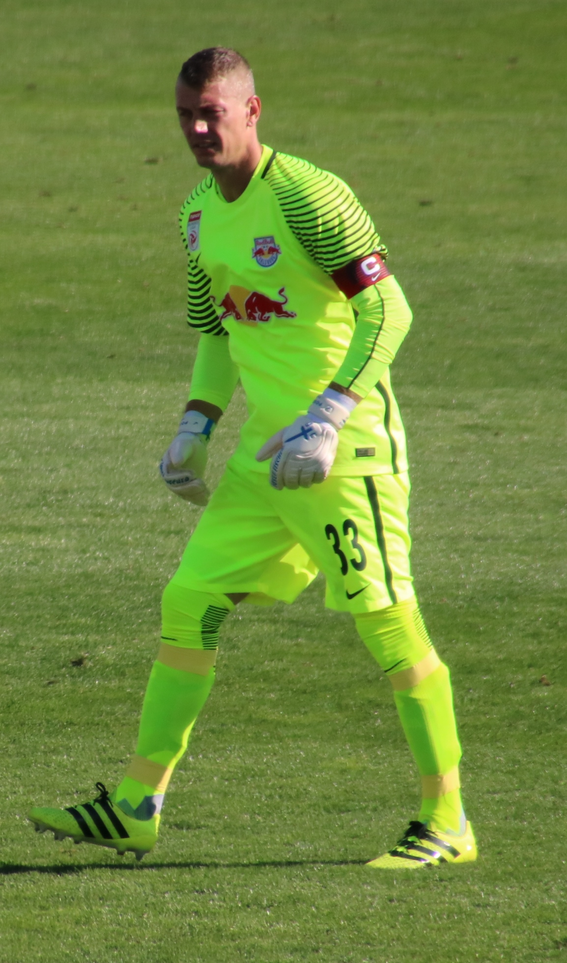 league match Austrian Bundesliga